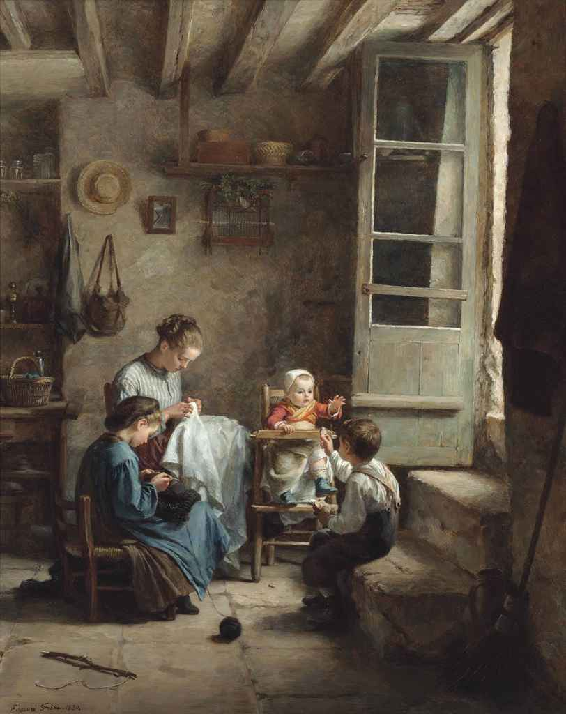 Helping Hands